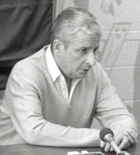 Art Modell, the former Cleveland Browns owner, giving a press conference around 1983. Cropped from the original image of Modell with coach Sam Rutigliano